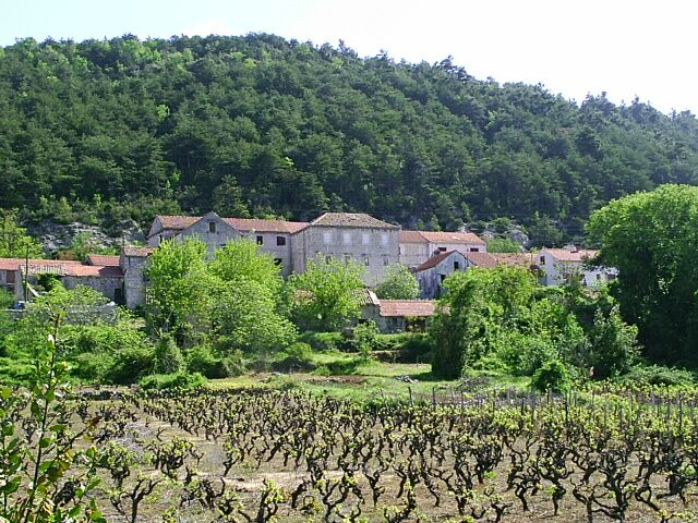 Town of Pelješka Dubrava at Pelješac peninsula, Croatia